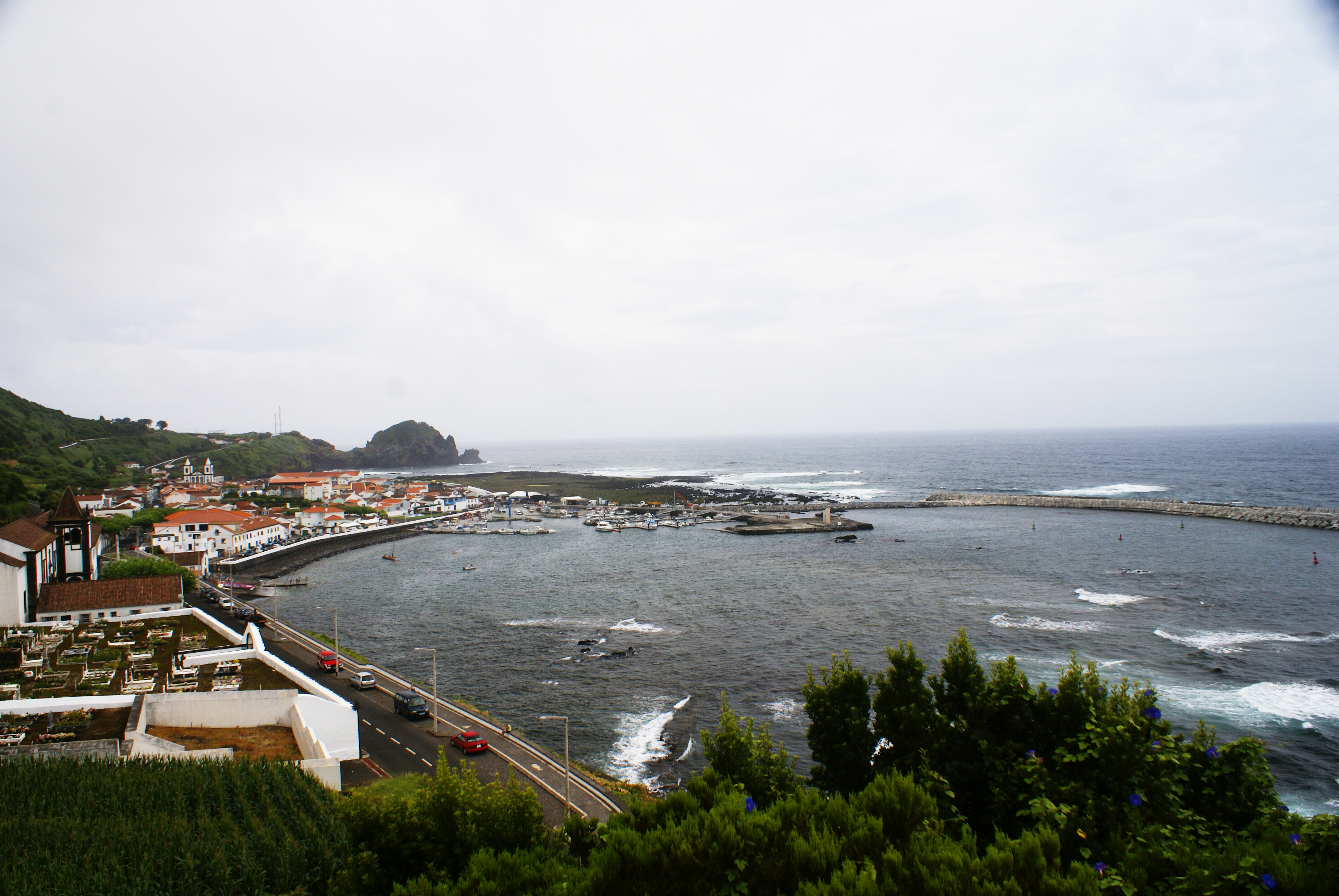 Lajes do Pico com o respectivo porto, vista parcial, ilha do Pico, Açores, Portugal